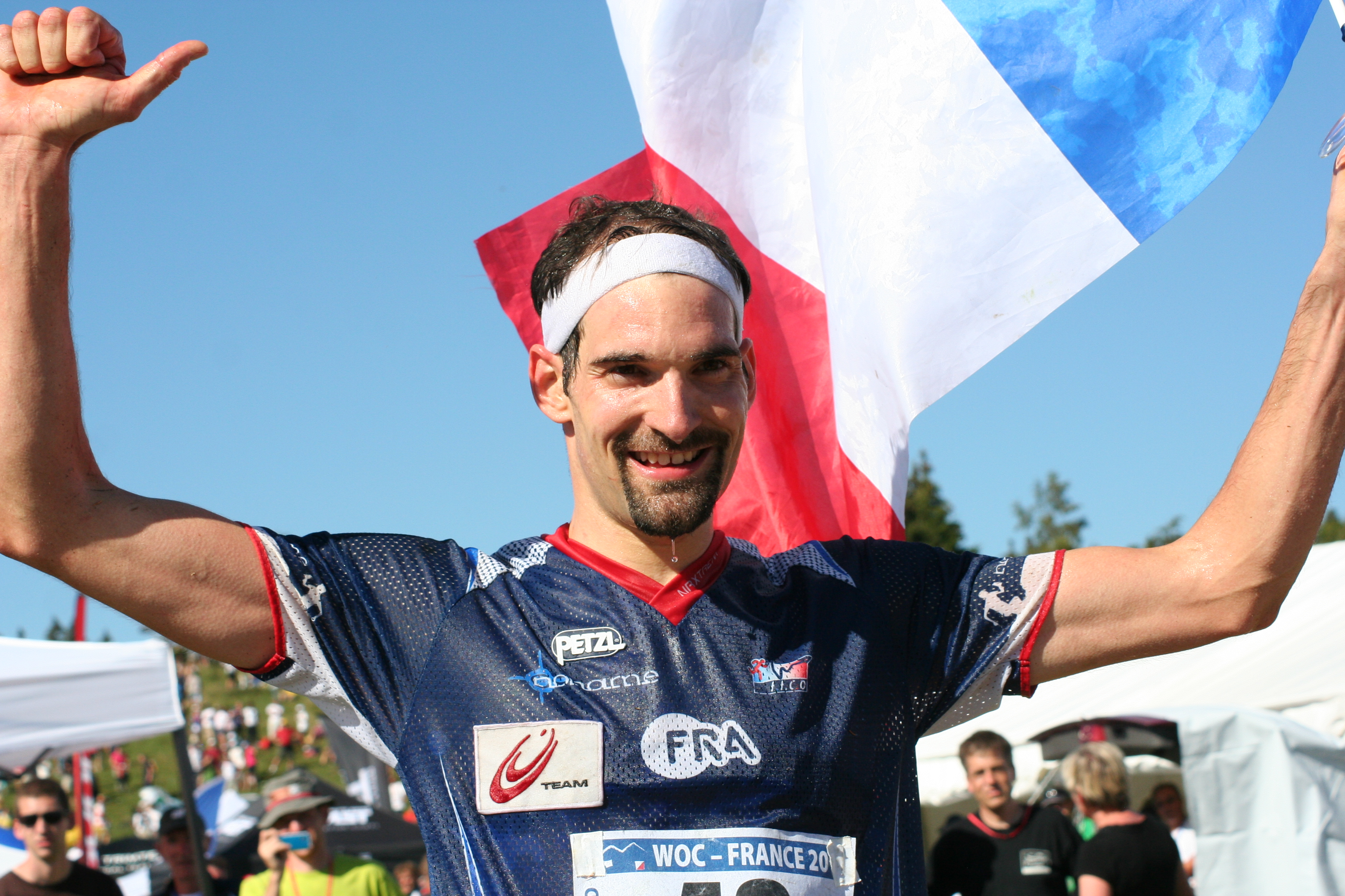 Thierry Gueorgiou at WOC 2011 Long distance final La Féclaz - France. Photos by Niels-Peter Foppen